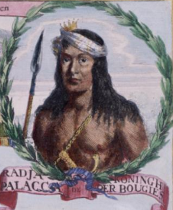 Bugis prince Arung Palakka, in the 1669 painting The Conquest of Macassar by Romeyn de Hooghe